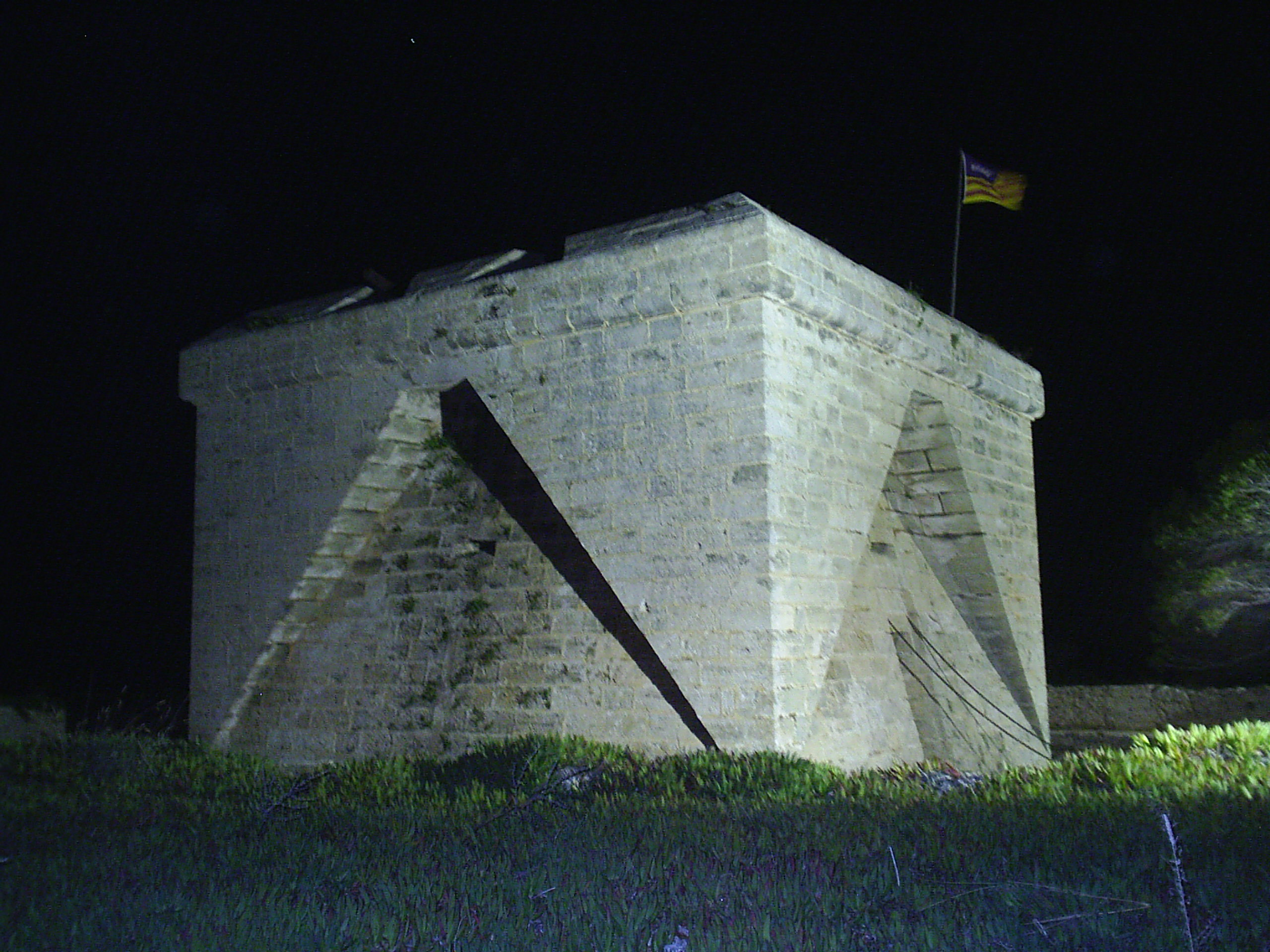 Guarding tower in Punta de n'Amer.